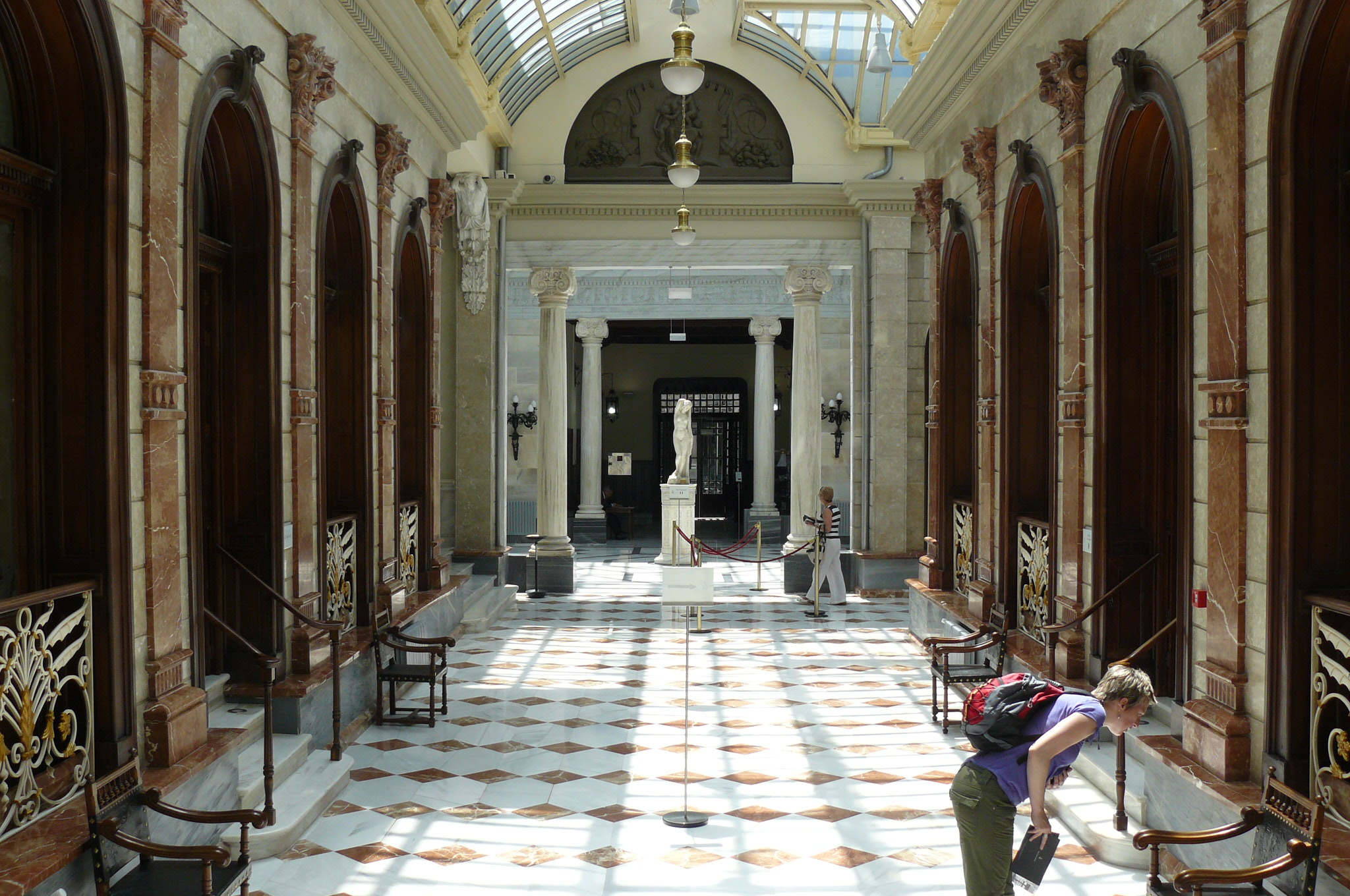 Real Casino in Murcia - hall.